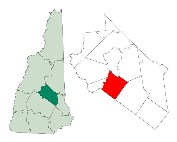 Map of a municipality in Belknap County, New Hampshire